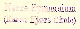 School Stamp from school book from Nørre Gymnasium (Karen Kjærs School), ca. 1920. The stamp in the book Physics and woodwork, published in 1916 as a school book.